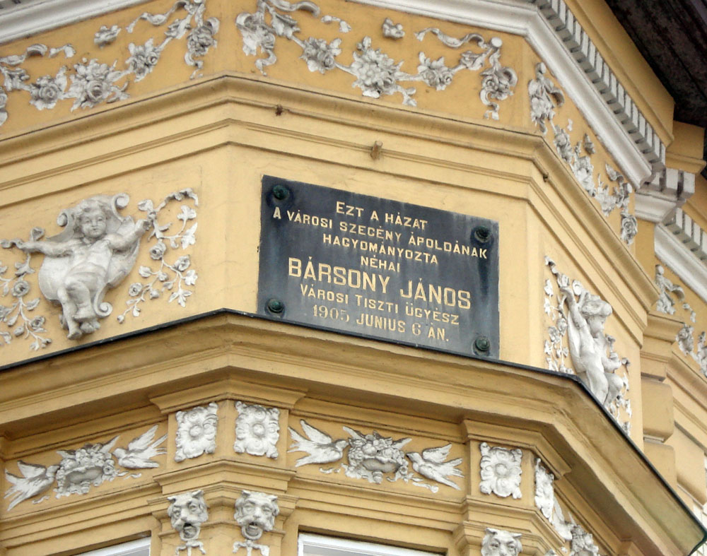 Memorial tablet in the house of János Bársony, Hungarian lawyer. Miskolc, Hungary.